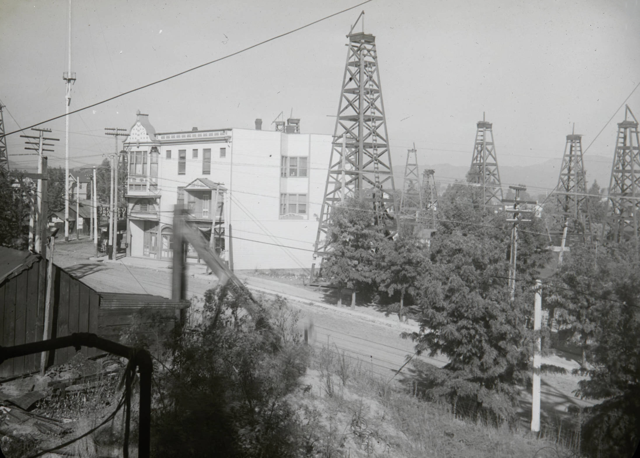 Los Angeles City Oil Field, Los Angeles, California, USA, from First Street and Belmont Avenue, facing east